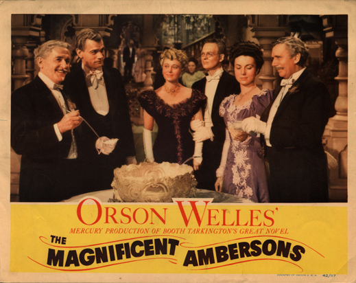 Lobby card from the 1942 film The Magnificent Ambersons